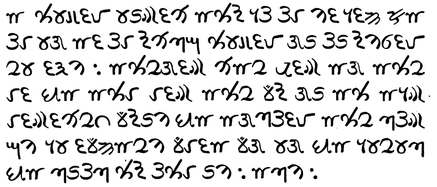 Example of a Multani variant of Landa script, a mercantile shorthand script of Punjab, from 1880